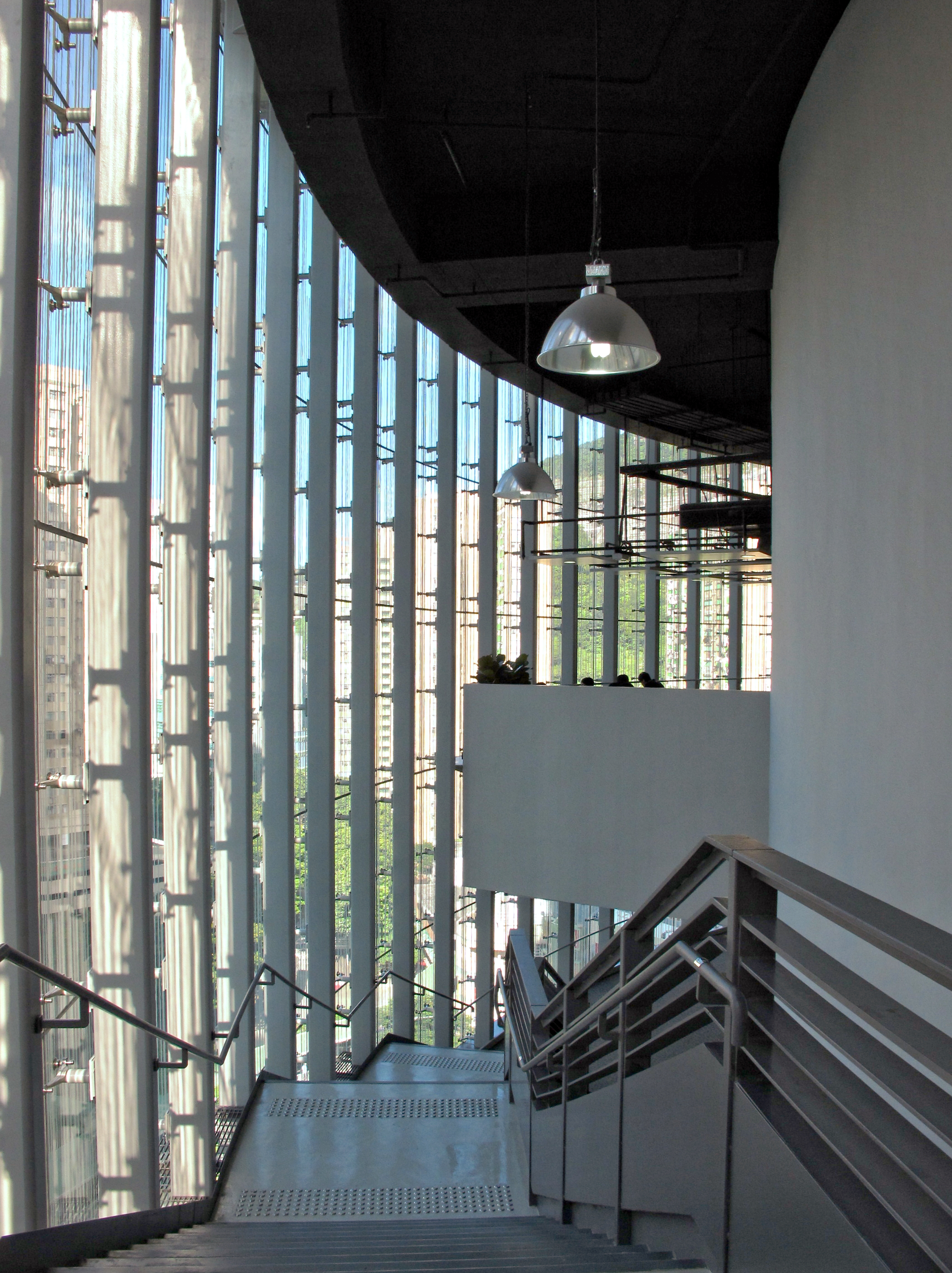 Youth Square Youth Square 青年廣場